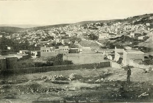 Nazareth, Palestine, Early 20th Century الناصرة، فلسطين، في مطلع القرن العشرين